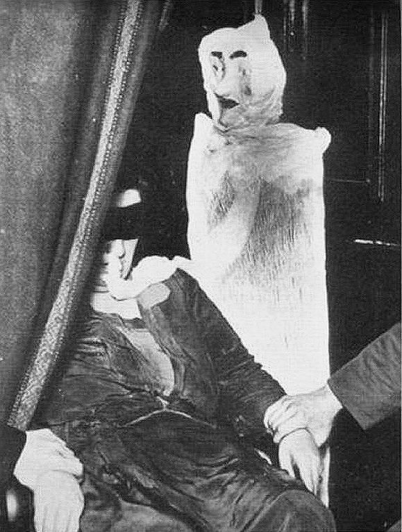 Photographs revealing the fraud mediumship of Helen Duncan. Malcolm Gaskill revealed in his book Hellish Nell: Last of Britain's Witches (Fourth Estate, 2001) that the photographs were taken by the photographer Harvey Metcalfe in 1928 during a séance at Duncan's house.